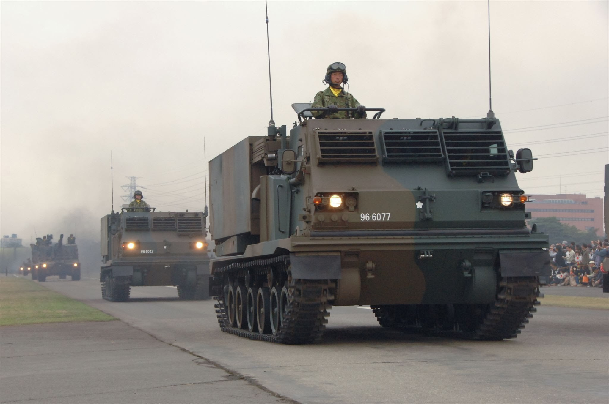 Title 13_13_047_R.JPG Album 自衛隊記念日 観閲式(Parade of Self-Defense Force) 平成22年度自衛隊記念日 観閲式(Parade of Self-Defense Force)